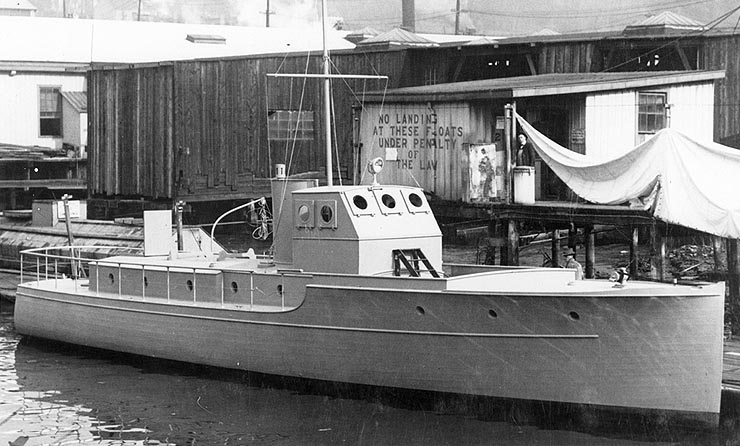 The private motorboat Velocipede soon after completion and prior to her United States Navy service as the patrol vessel USS Velocipede (SP-1258).